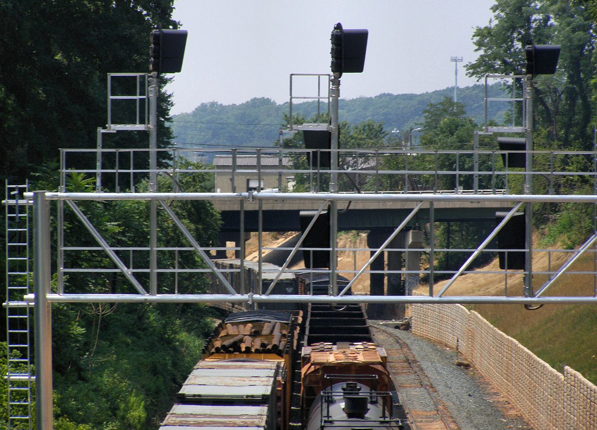 Darth Vader type signals waiting to go into service at CSX WEST BALTIMORE interlocking.